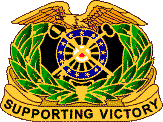 U.S. Army Quartermaster Corps' Regimental Insignia.